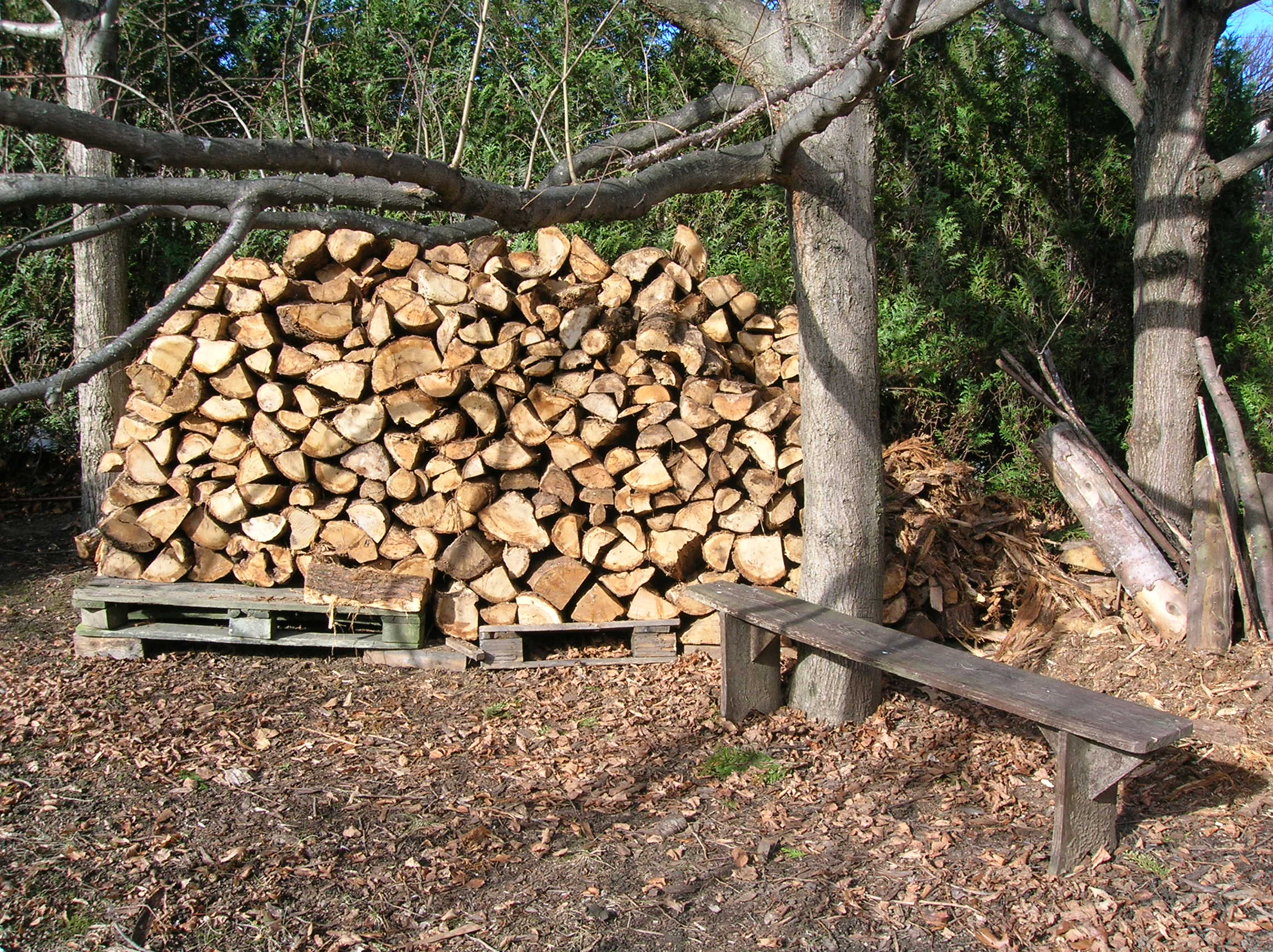 Different states of wood: tree, logs, pallet, wooden bench.